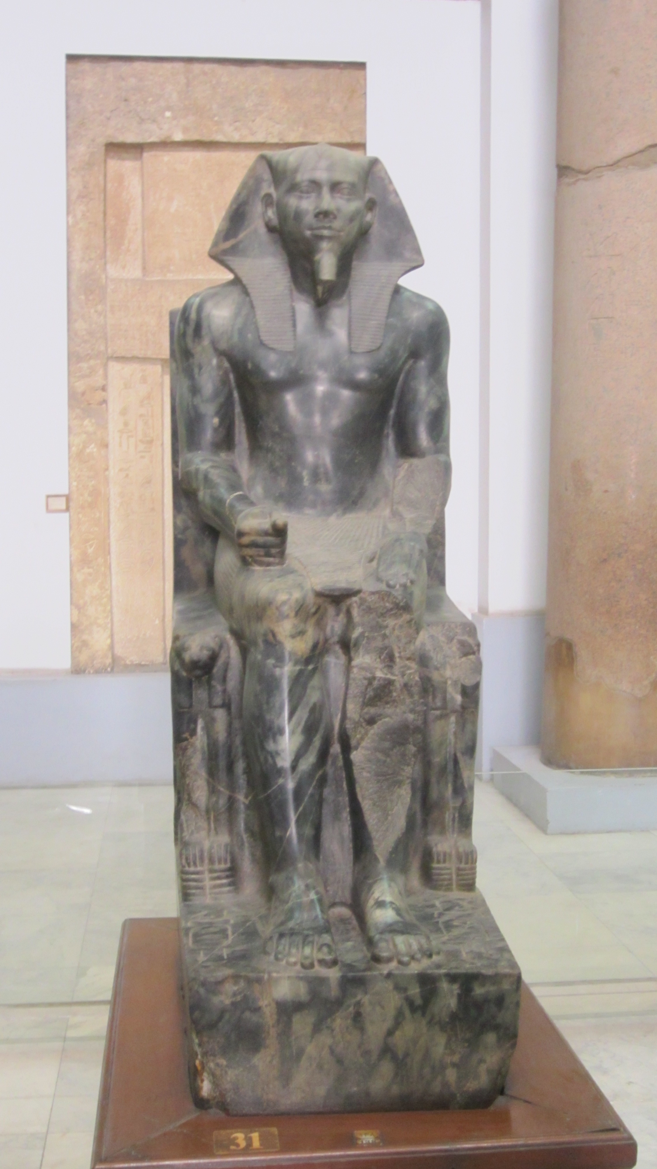 The statue of Khafre from his valley temple at Giza, now in the Egyptian Museum of Antiquities in Cairo. Fourth Dynasty, 26th century BC.